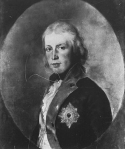 King Friedrich Wilhelm III of Prussia (1770-1840) as Crown Prince